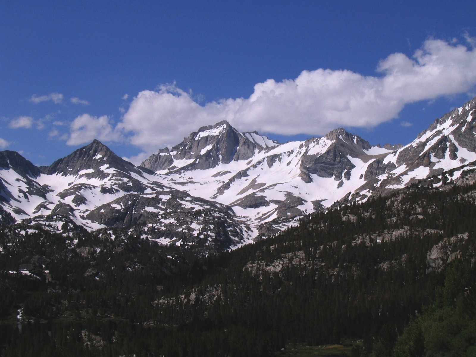 Bear Creek Spire, Sierra Nevada, from Little Lakes Valley.